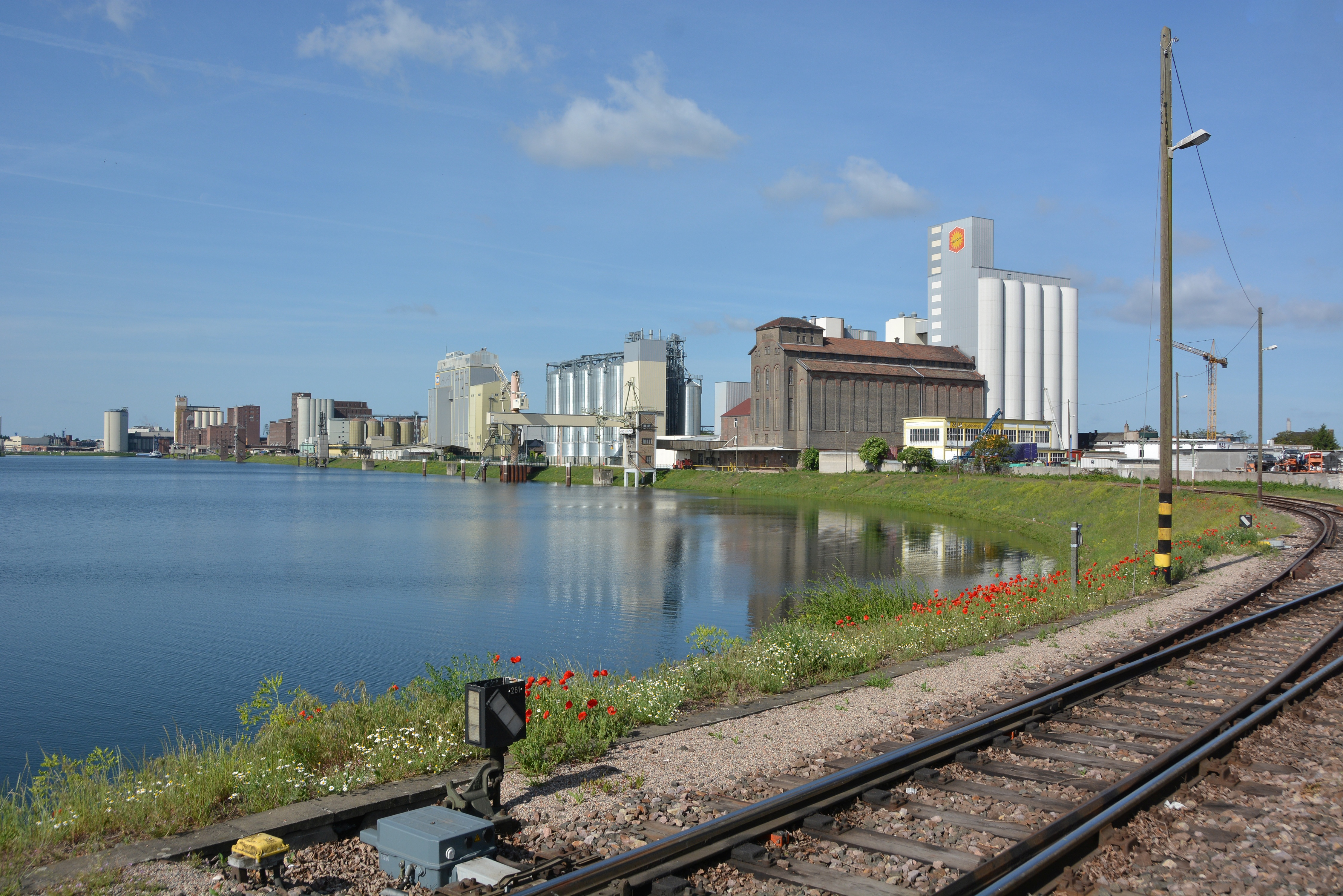 Mills along Industry Harbor (harbor 41), Mannheim, Germany